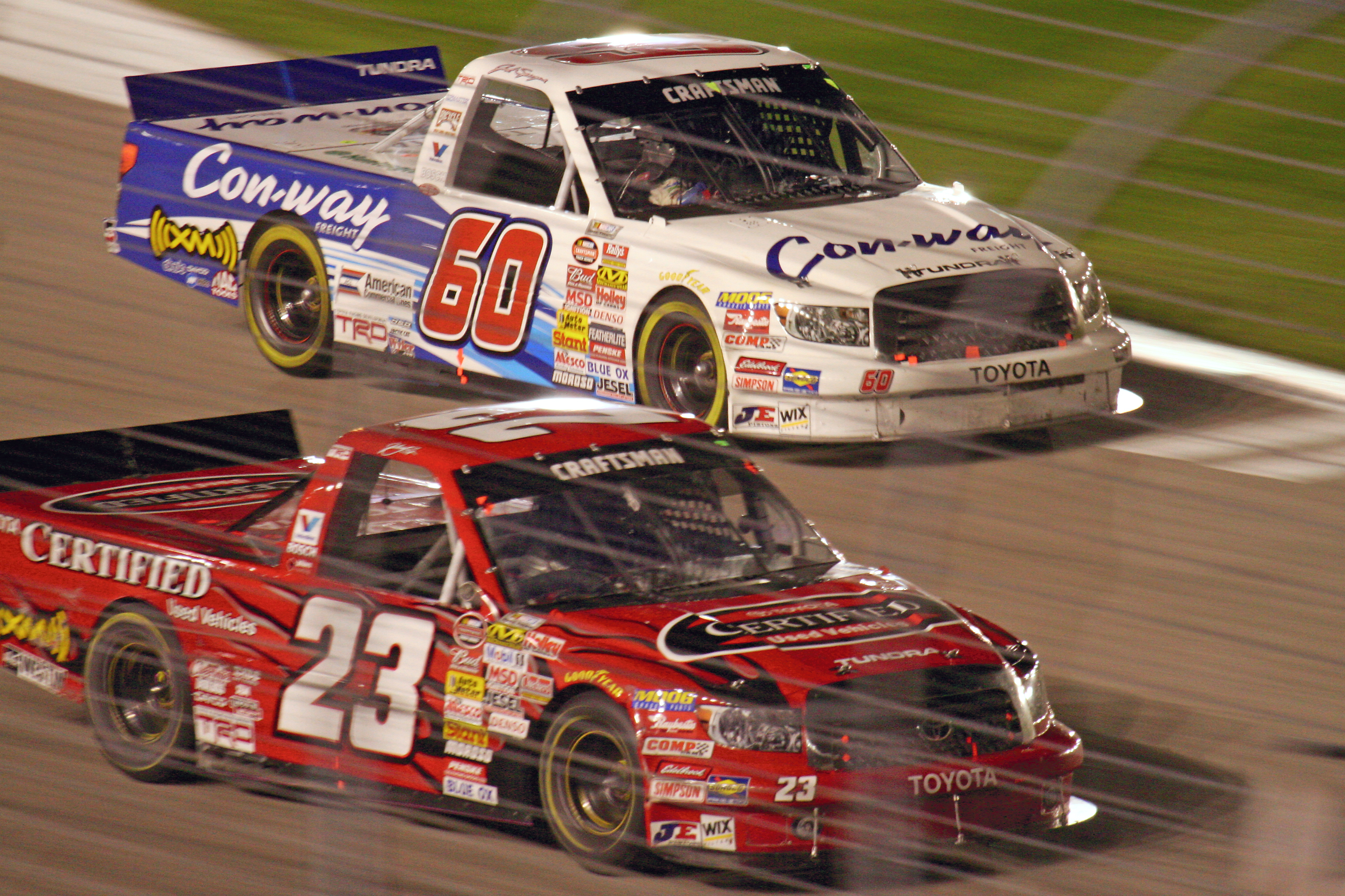 The Toyota Tundras of NASCAR Craftsman Truck Series drivers Johnny Benson (#23) and Jack Sprague (#60)Toyota Tundras